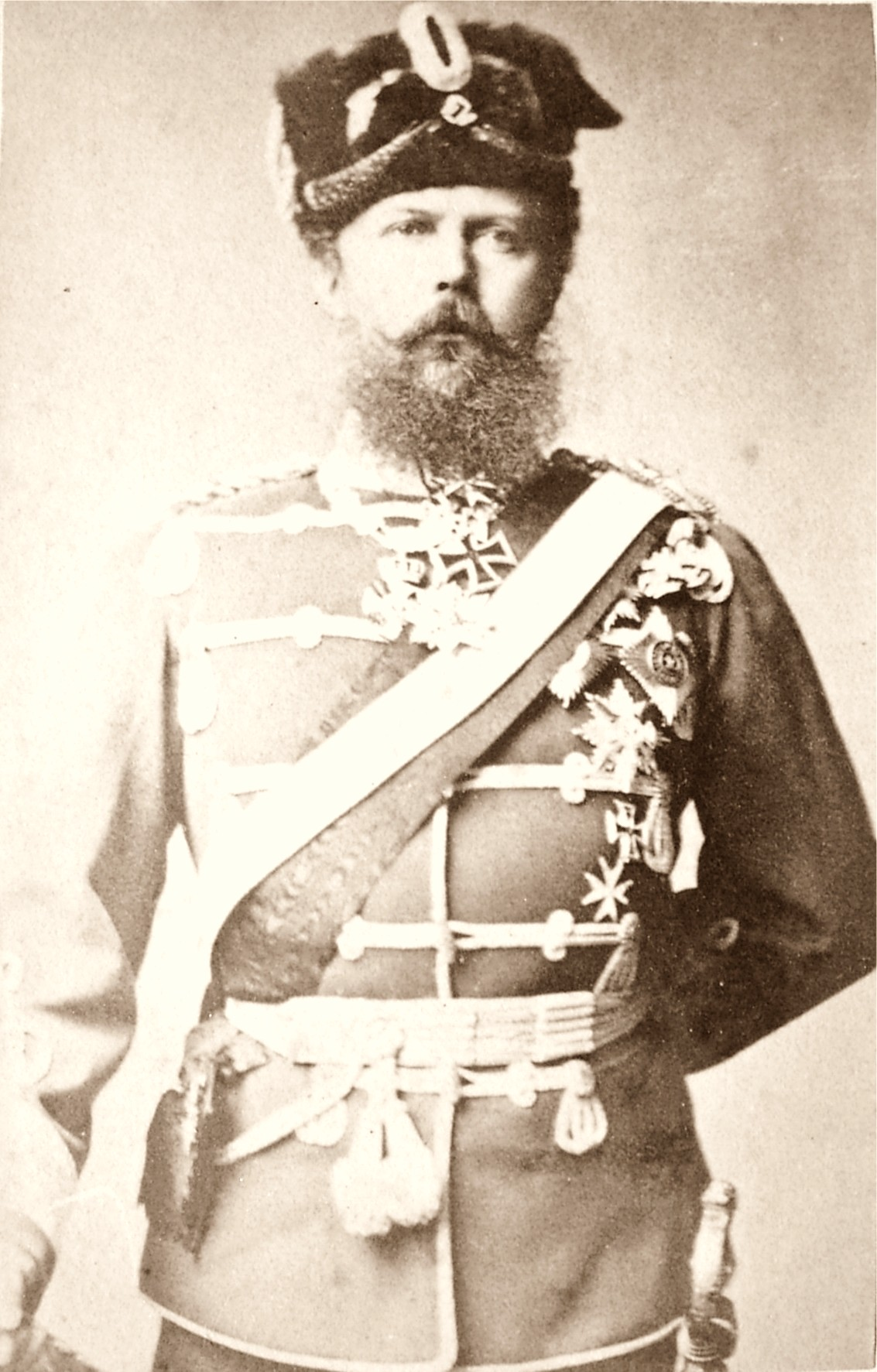 Prince Frederick Charles of Prussia (1828–1885), with Grand Cross of the Iron Cross and Order of St. John